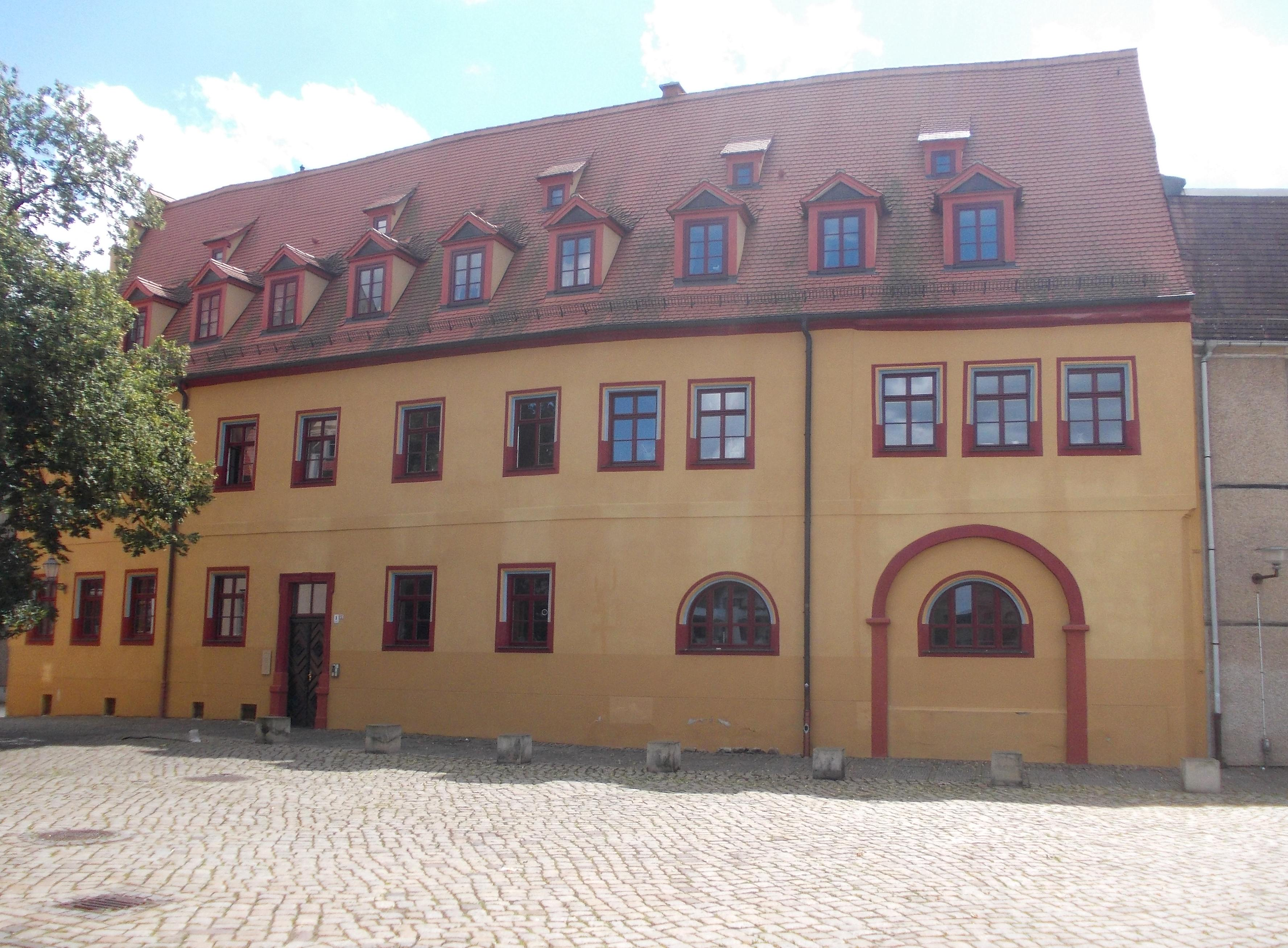 No. 1, Domplatz in Halle/Saale (Saxony-Anhalt)